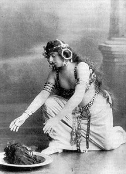 Soprano Alice Guszalewicz as Salomé with Jokanaan's severed head in Richard Strauss's opera. Cologne 1906 or Leipzig 1907. Collection Guillot de Saix, Paris. Richard Ellmann's 1987 biography of Oscar Wilde had published the photo with the caption: "Oscar Wilde in the costume of Salomé." Mervin Holland and Dr. Horst Schroeder of Braunschweig however could prove that the photo showed Alice Guszalewicz who had sung Salome in Cologne in 1906 and in Leipzig 1907.